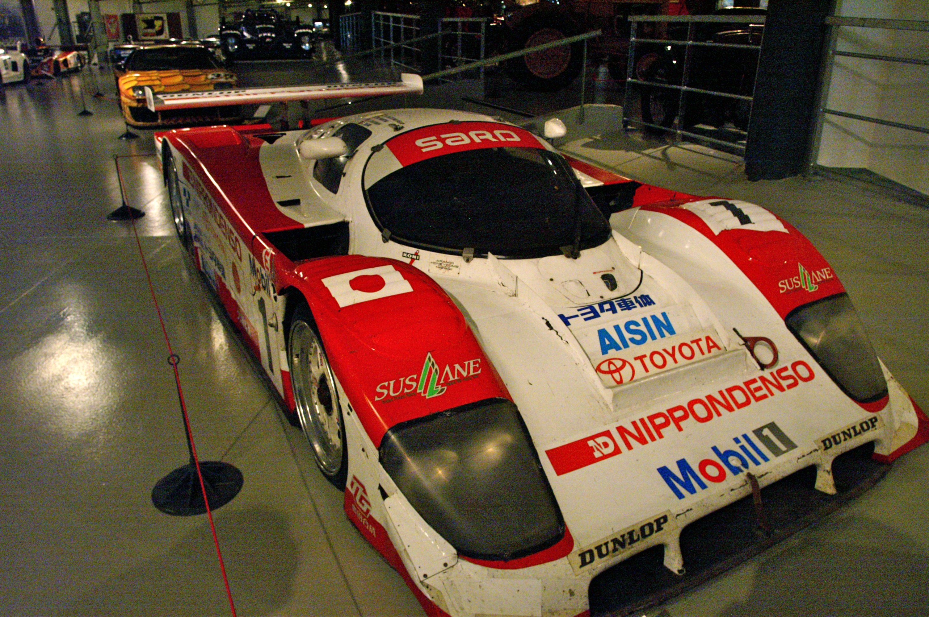 1994 Toyota 94 CV shown at "Le Musee des 24 Heures". 2nd place at Le Mans 1994